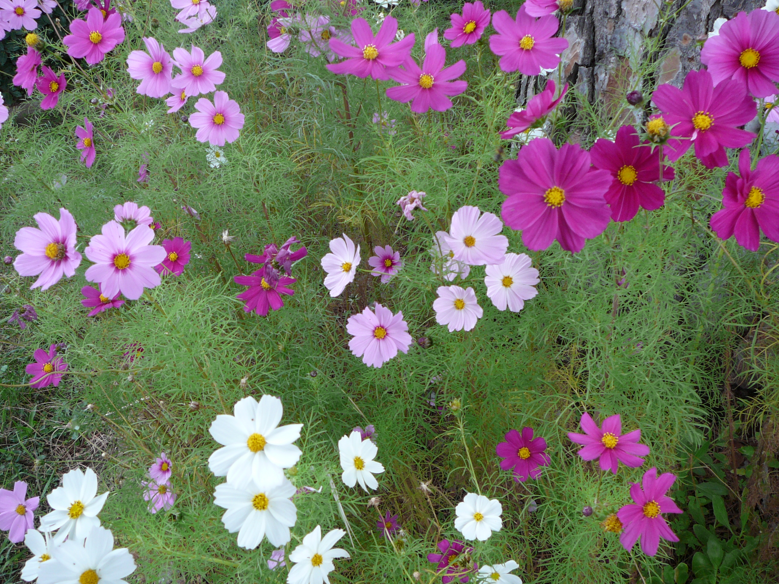 Cosmos flowers